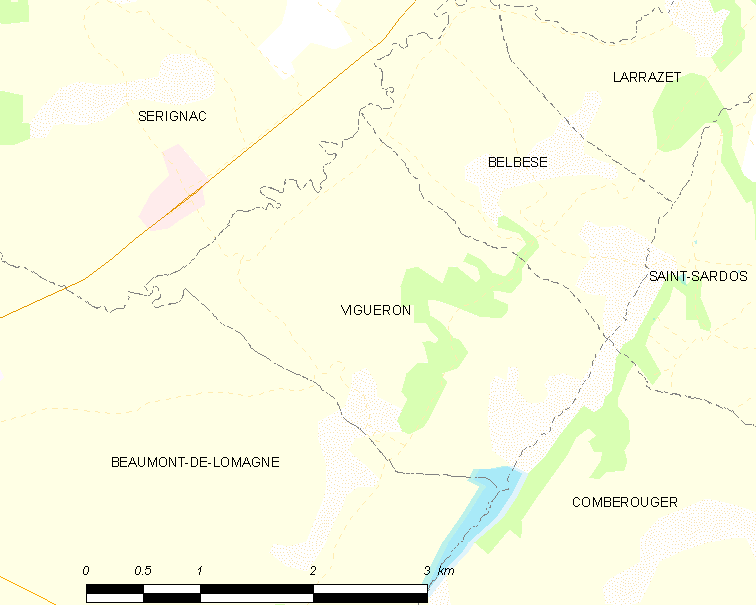 Map of French municipality Vigueron